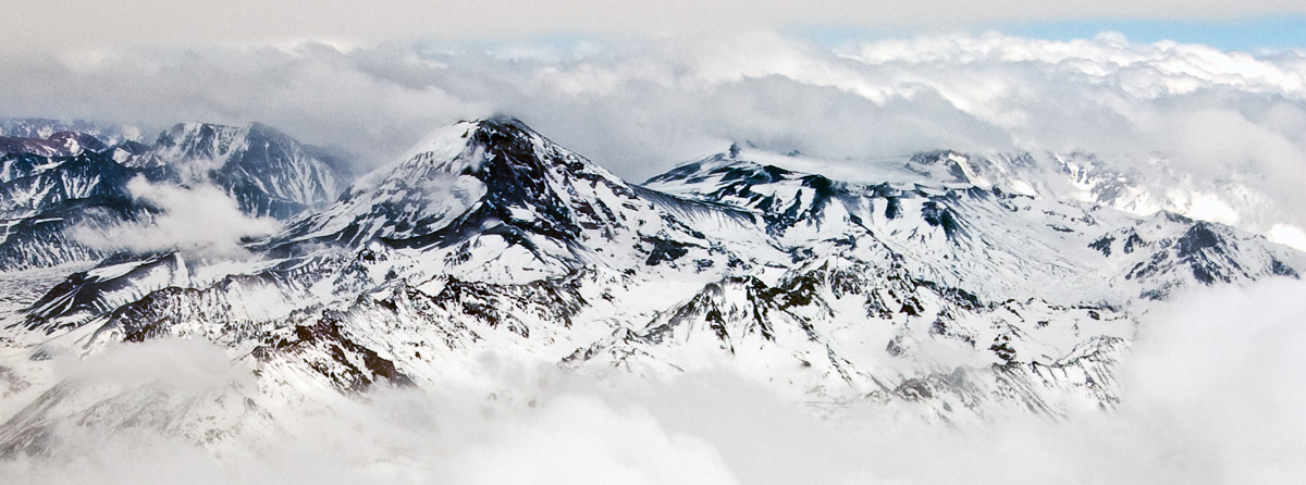 Areal view on the Tupungato (cone, center-left) and Tupungatito (flat, center-right) volcanoes, seen from a commercial flight.